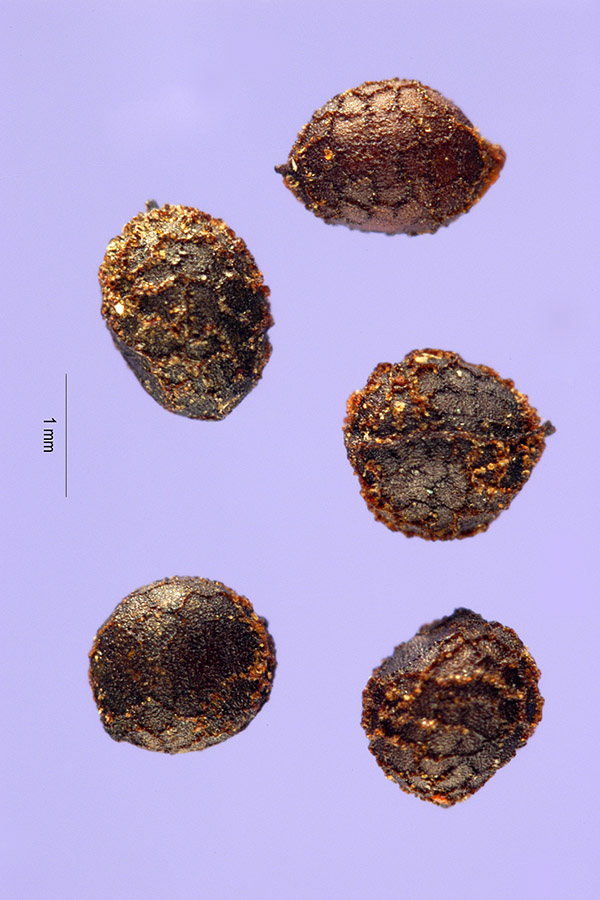 Eschscholzia californica : mature seeds